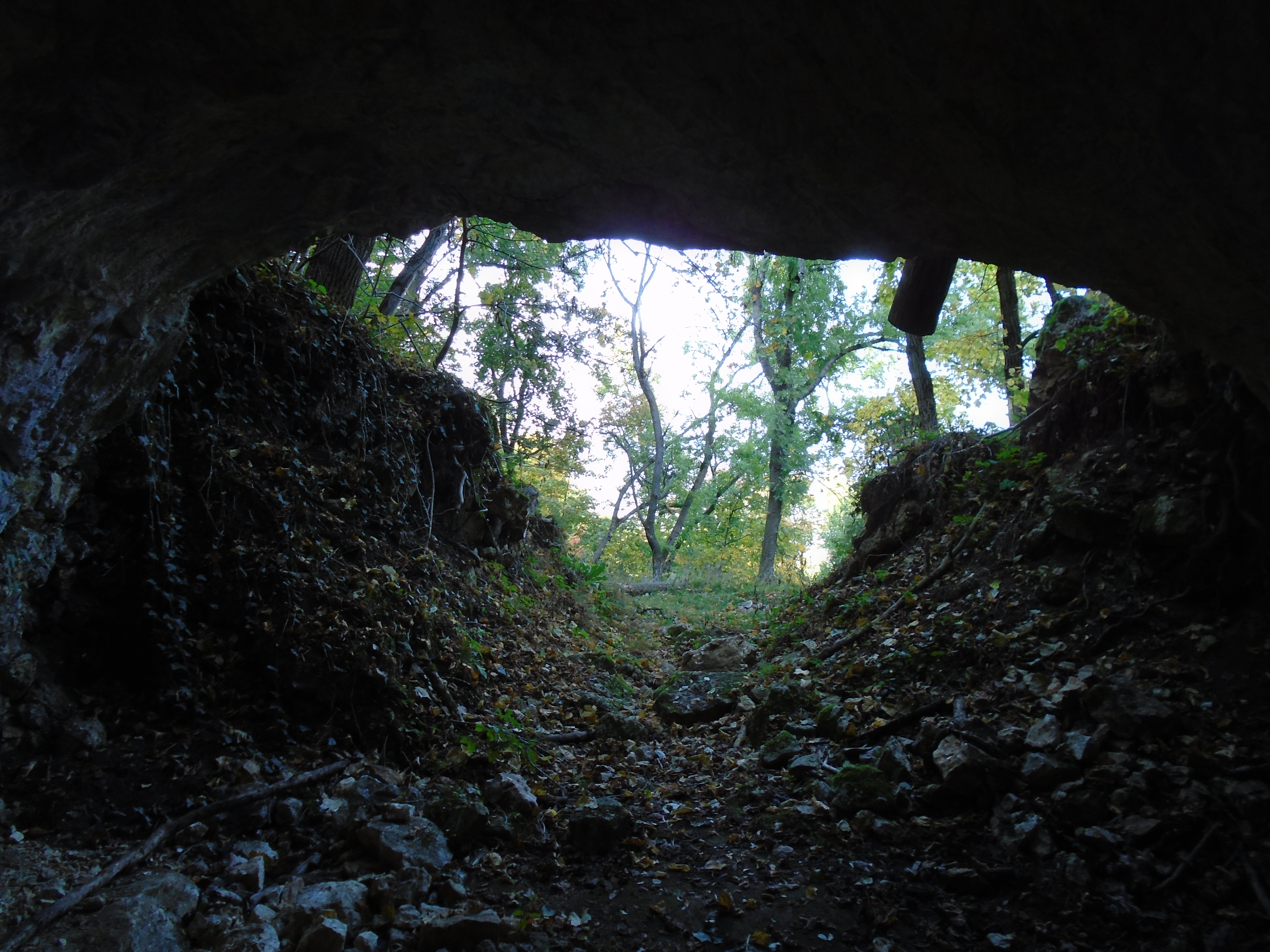 Entrance of Zöld Cave in Budakalász.